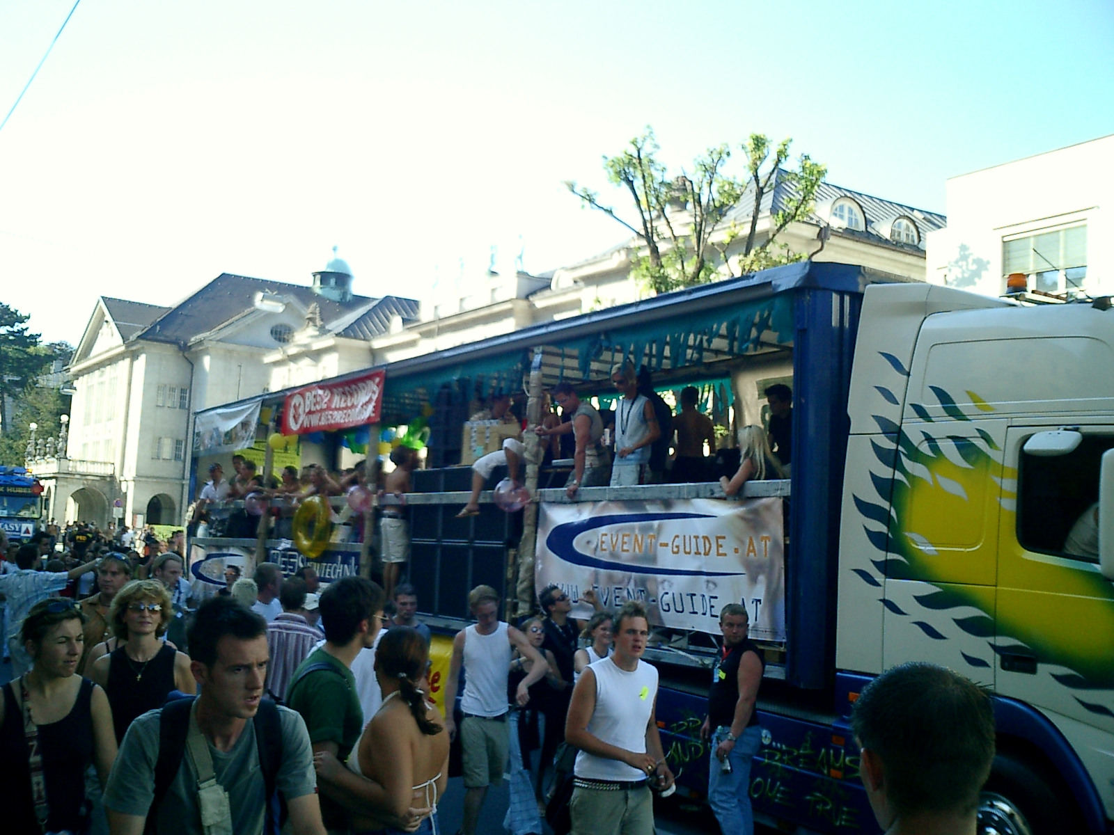 Gay Pride parade in Salzburg, Austria, 2003